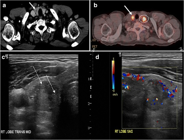 For context, see Computed tomography of the thyroid.